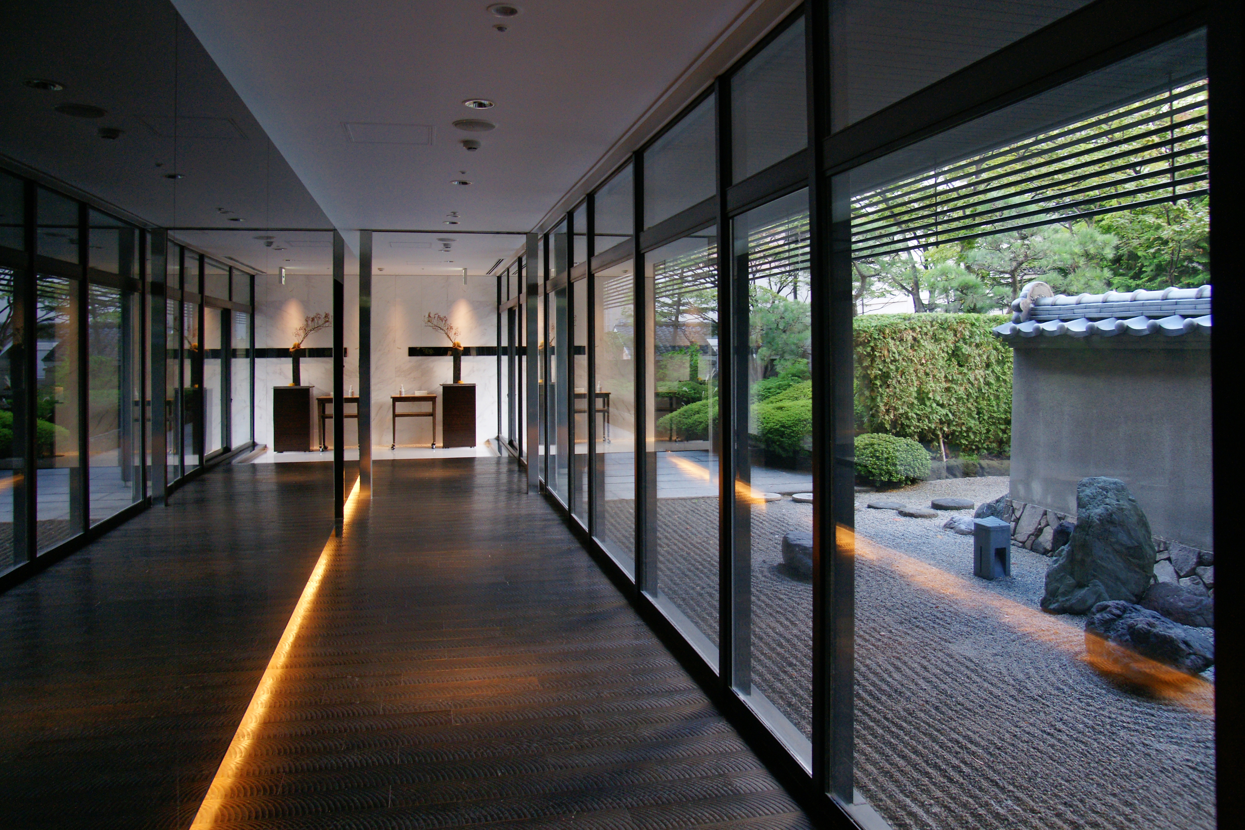 Sapporo_Grand_Hotel in Sapporo, Hokkaido prefecture, Japan